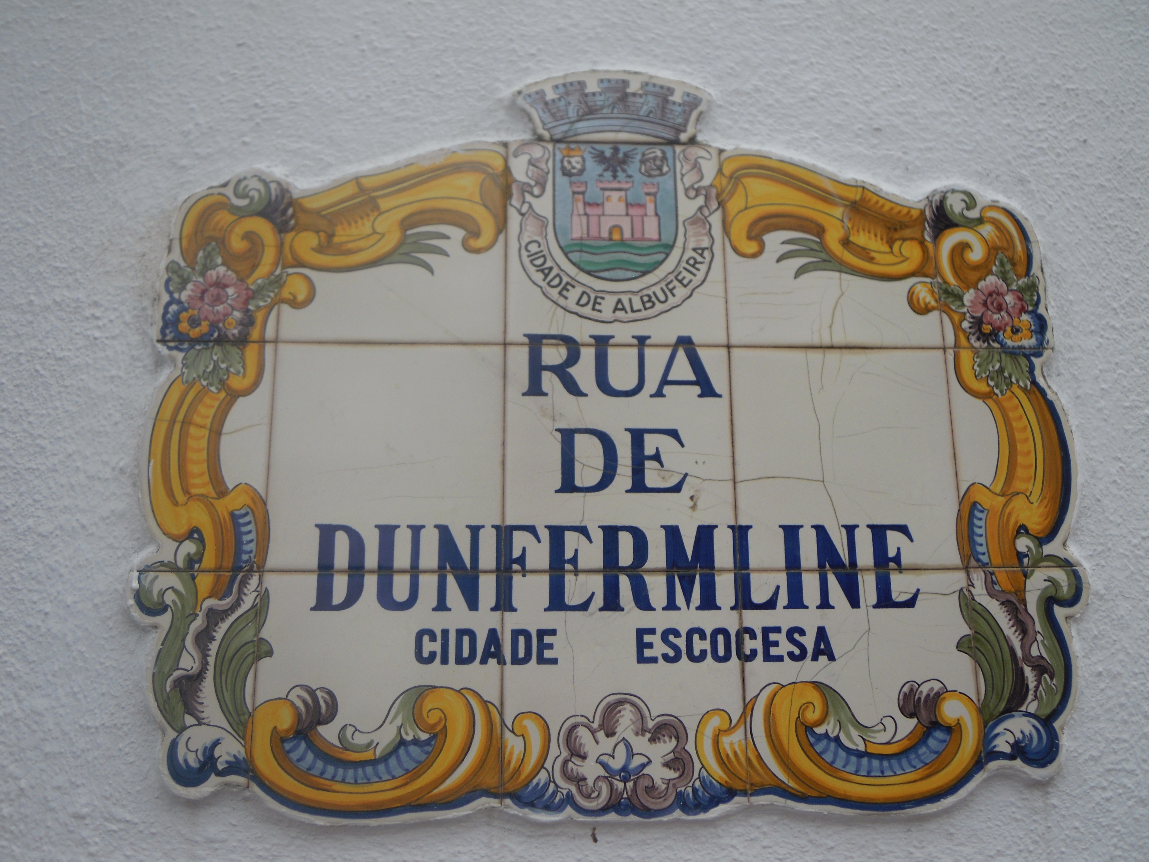 The tile street sign at the north end of the Rua de Dunfermline, Albufeira in the Areias de São João of Albufeira, Algarve, Portugal